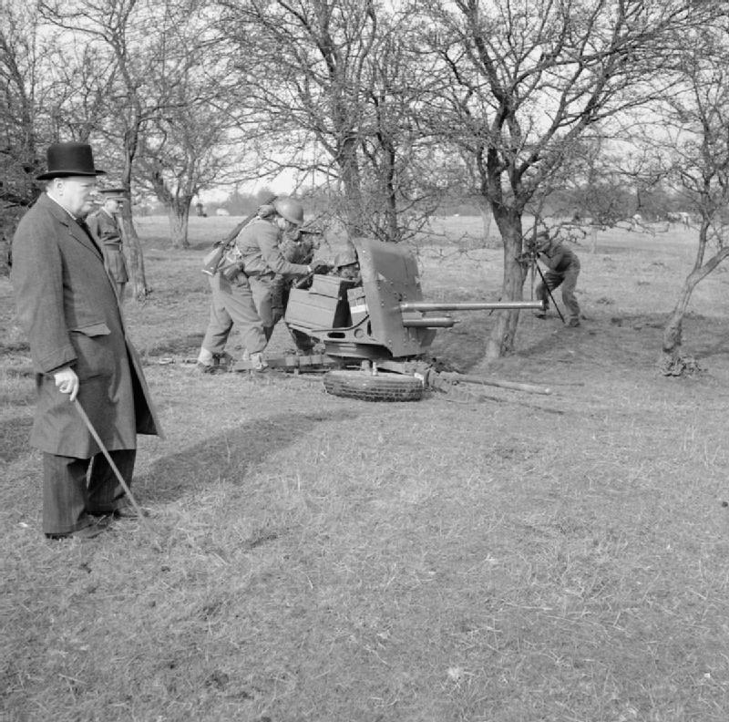 Allied Forces in the United Kingdom 1939-45 Winston Churchill watches Czech troops training with a 2-pdr anti-tank gun near Leamington Spa, 20 April 1941.